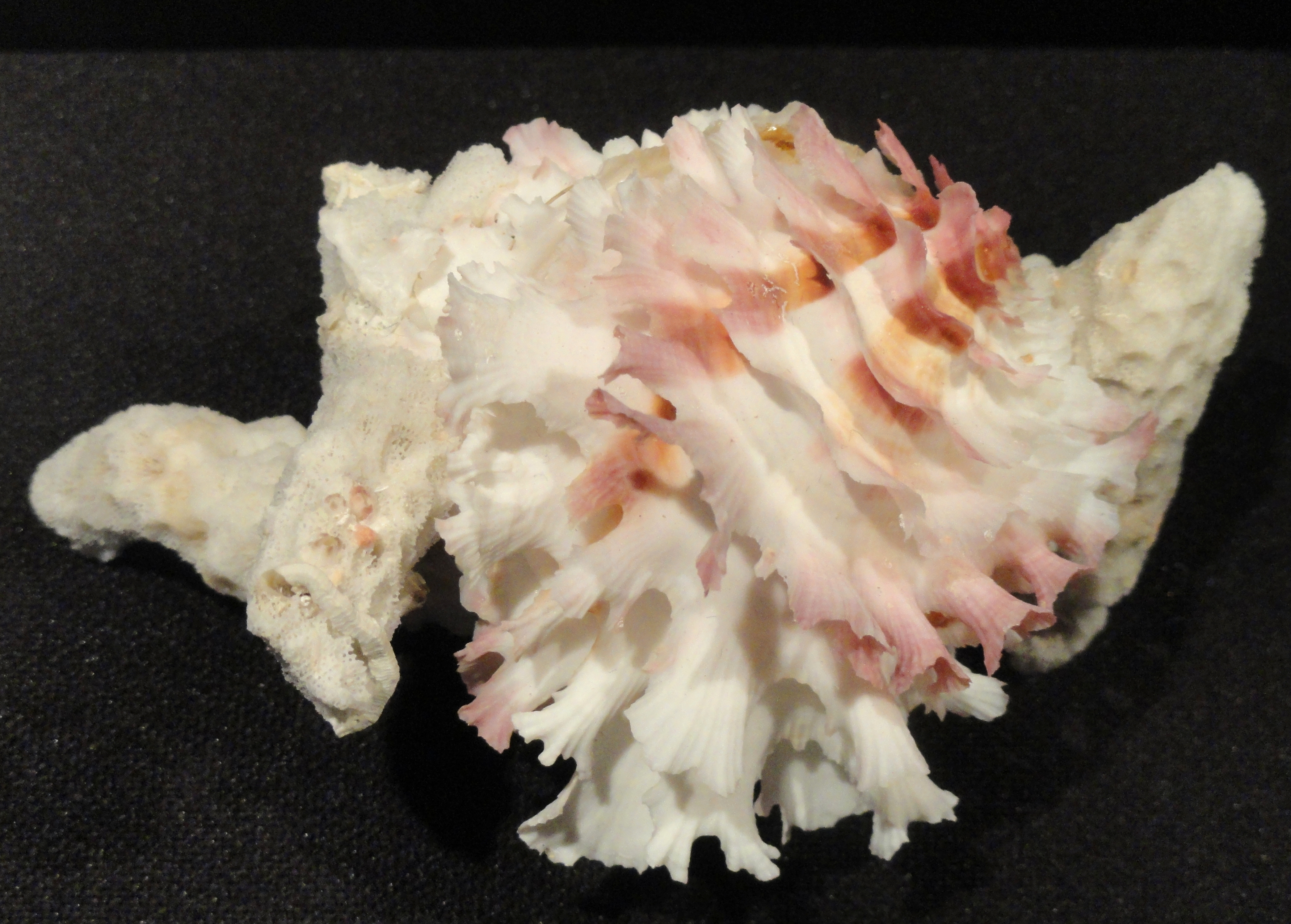 Exhibit in the Houston Museum of Natural Science, Houston, Texas, USA.